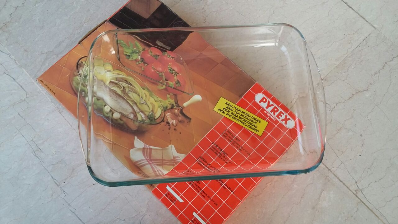 Glassware from Corning Inc.